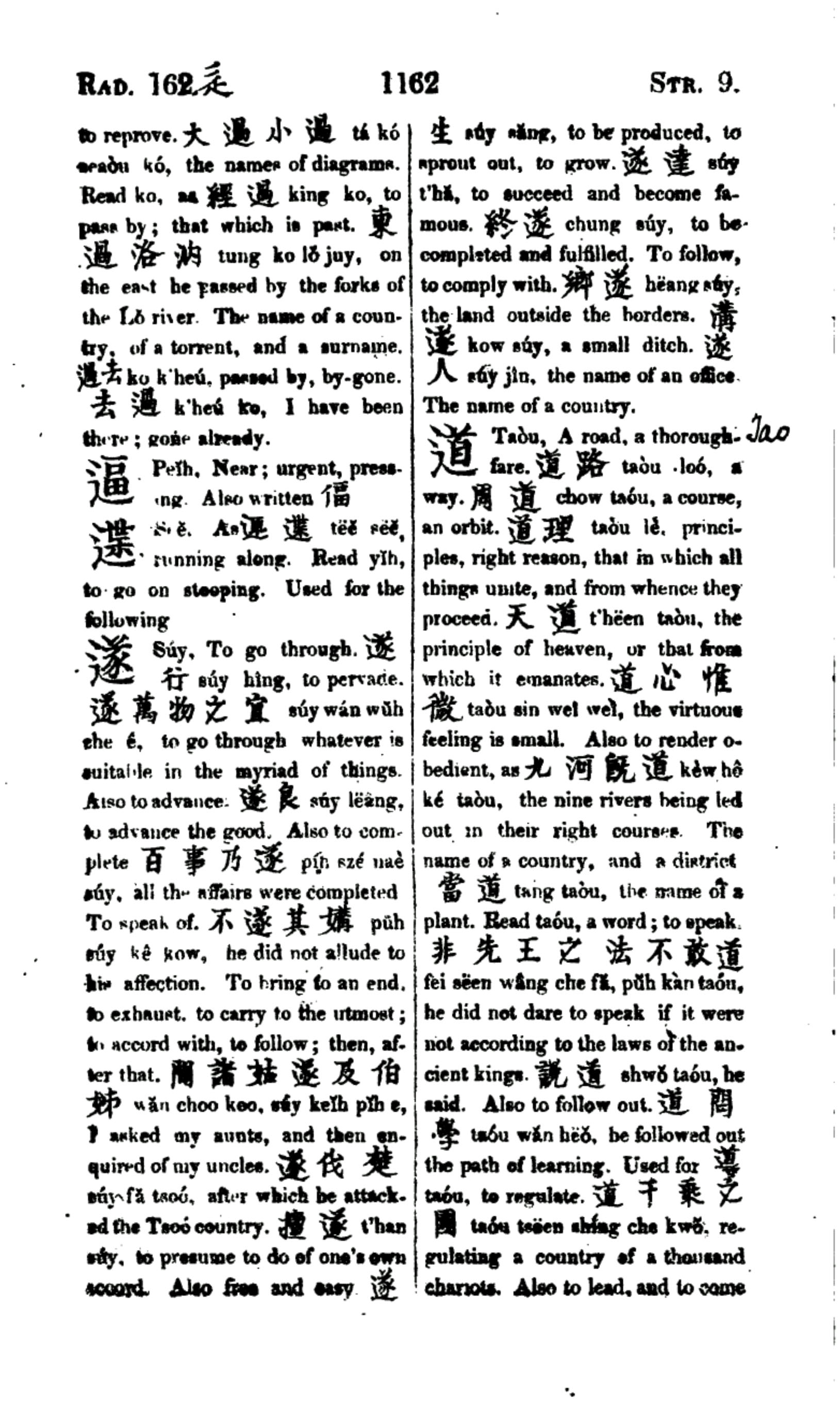 Walter Henry Medhurst's (1842) Chinese and English Dictionary page 1162